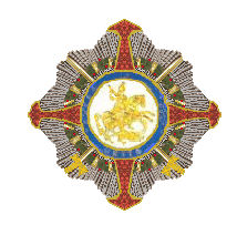 Military Order of Saint George and the Reunion